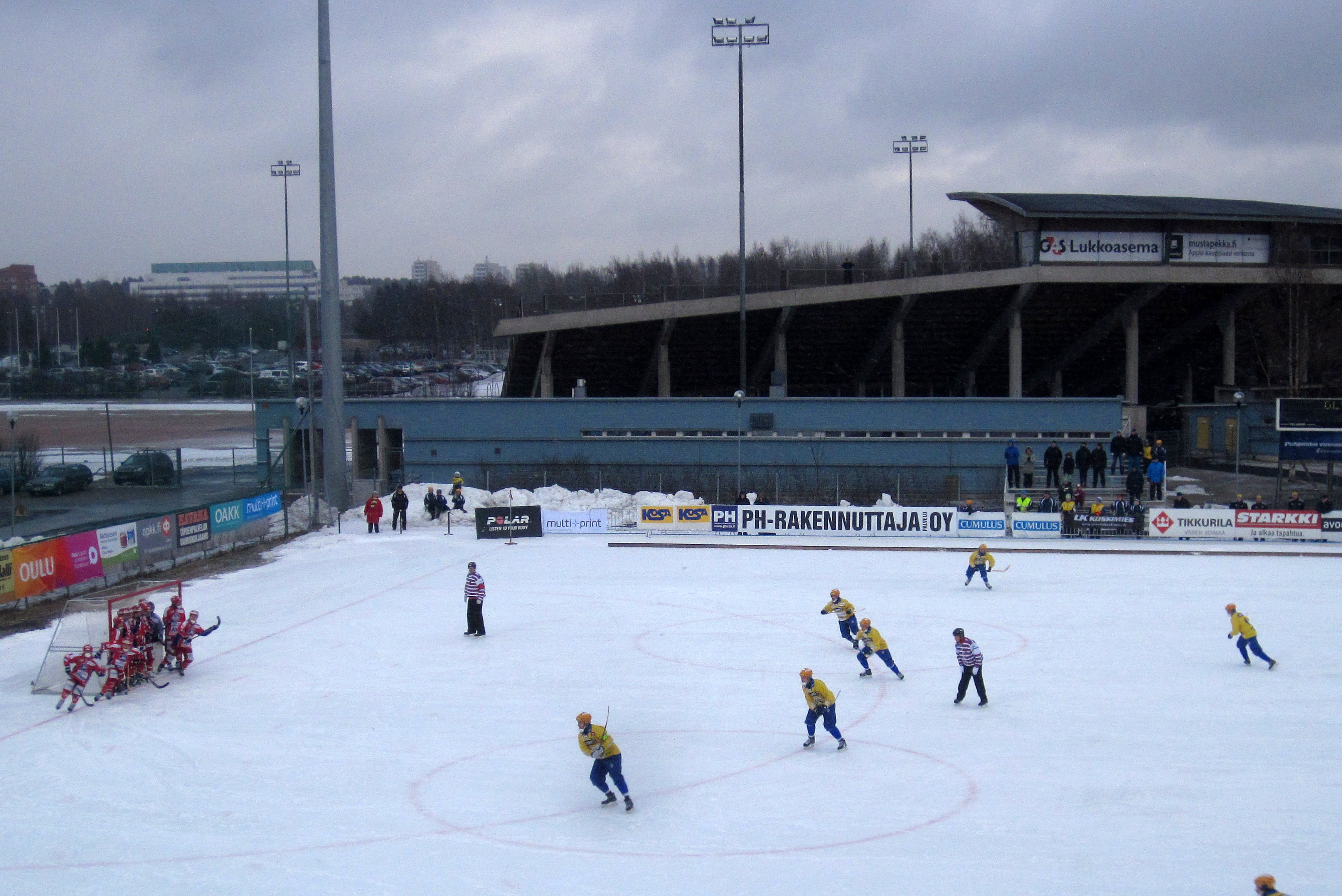 The 2014 Bandyliiga Final was played at the Raksila artificial ice rink in Oulu. The final was played between Oulun Luistinseura (OLS) and Jyväskylän Seudun Palloseura(JPS), OLS got the championship with the result 4-2.